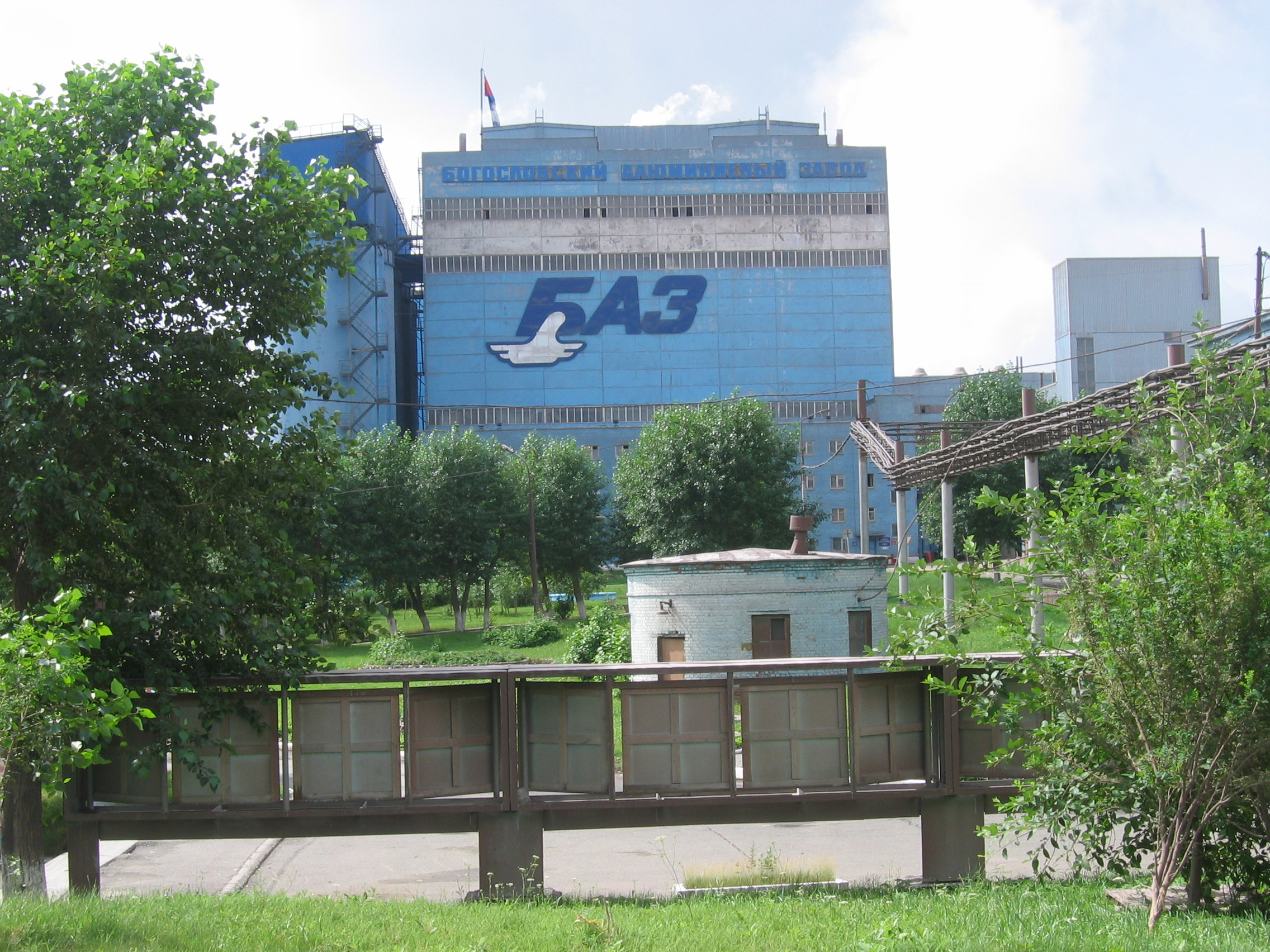 Bogoslovsky Aluminium Plant